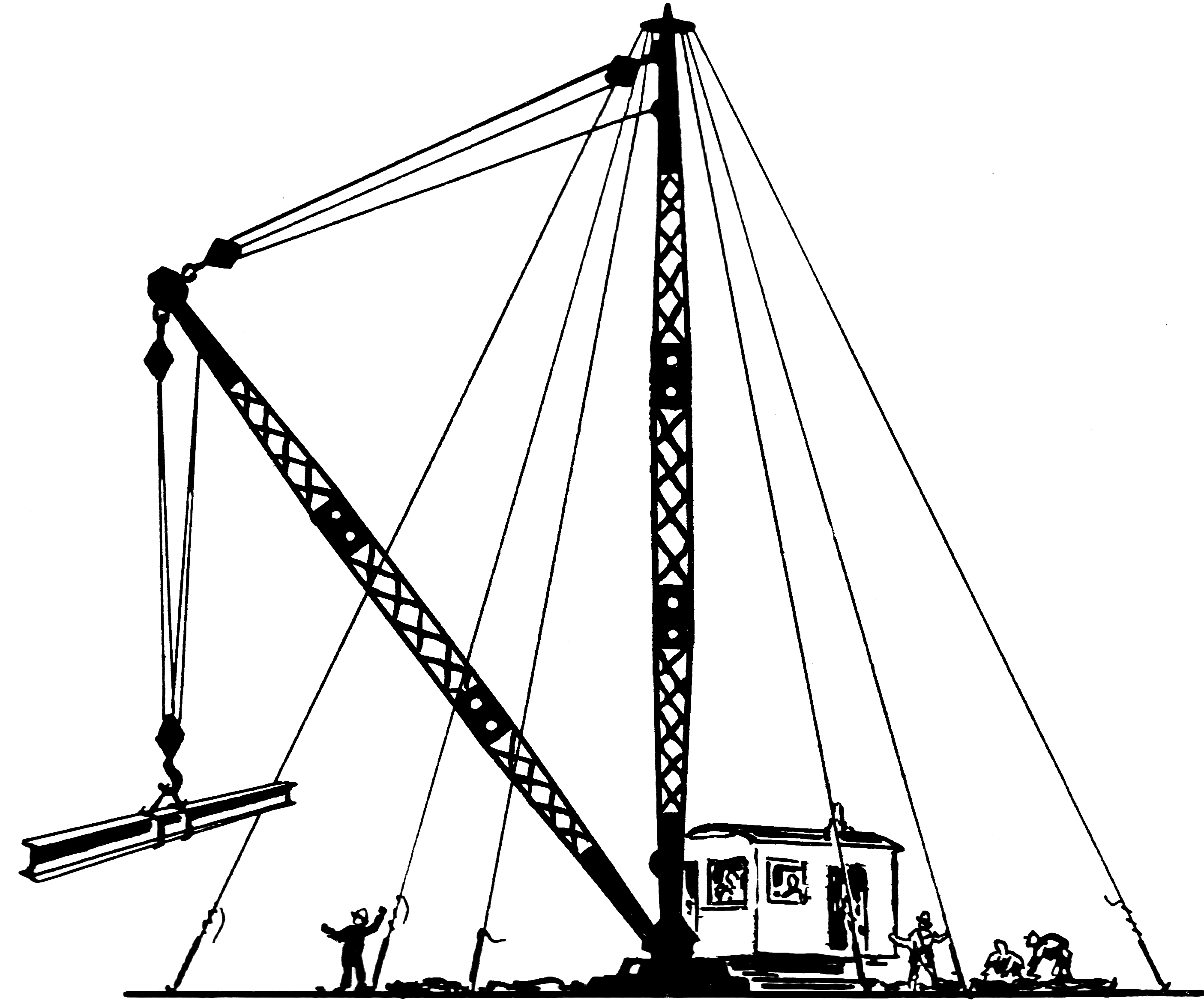 Line art drawing of a derrick.